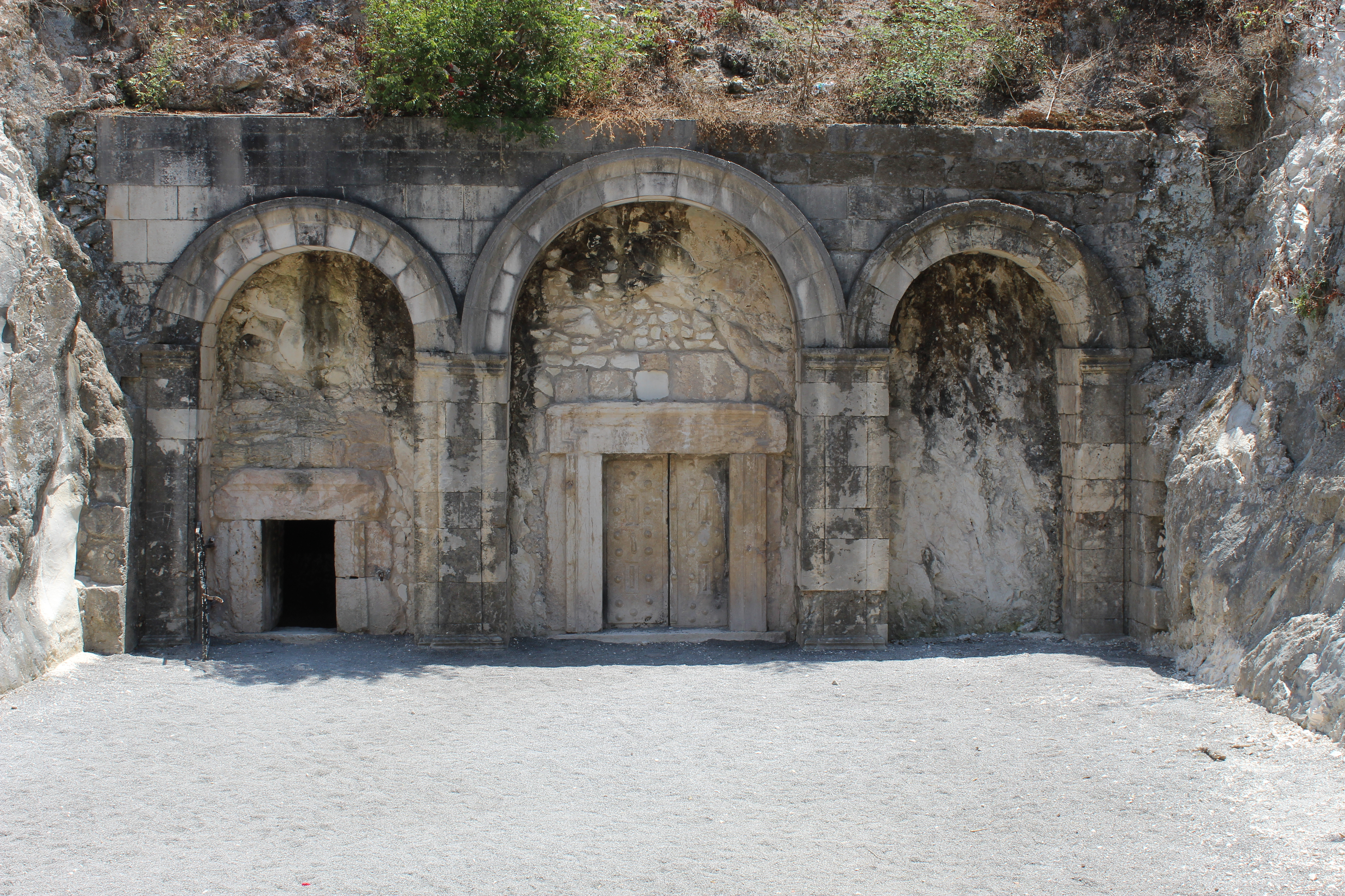 Courtyard at the entrance of Catacomb no. 14 (Beit Shearim)